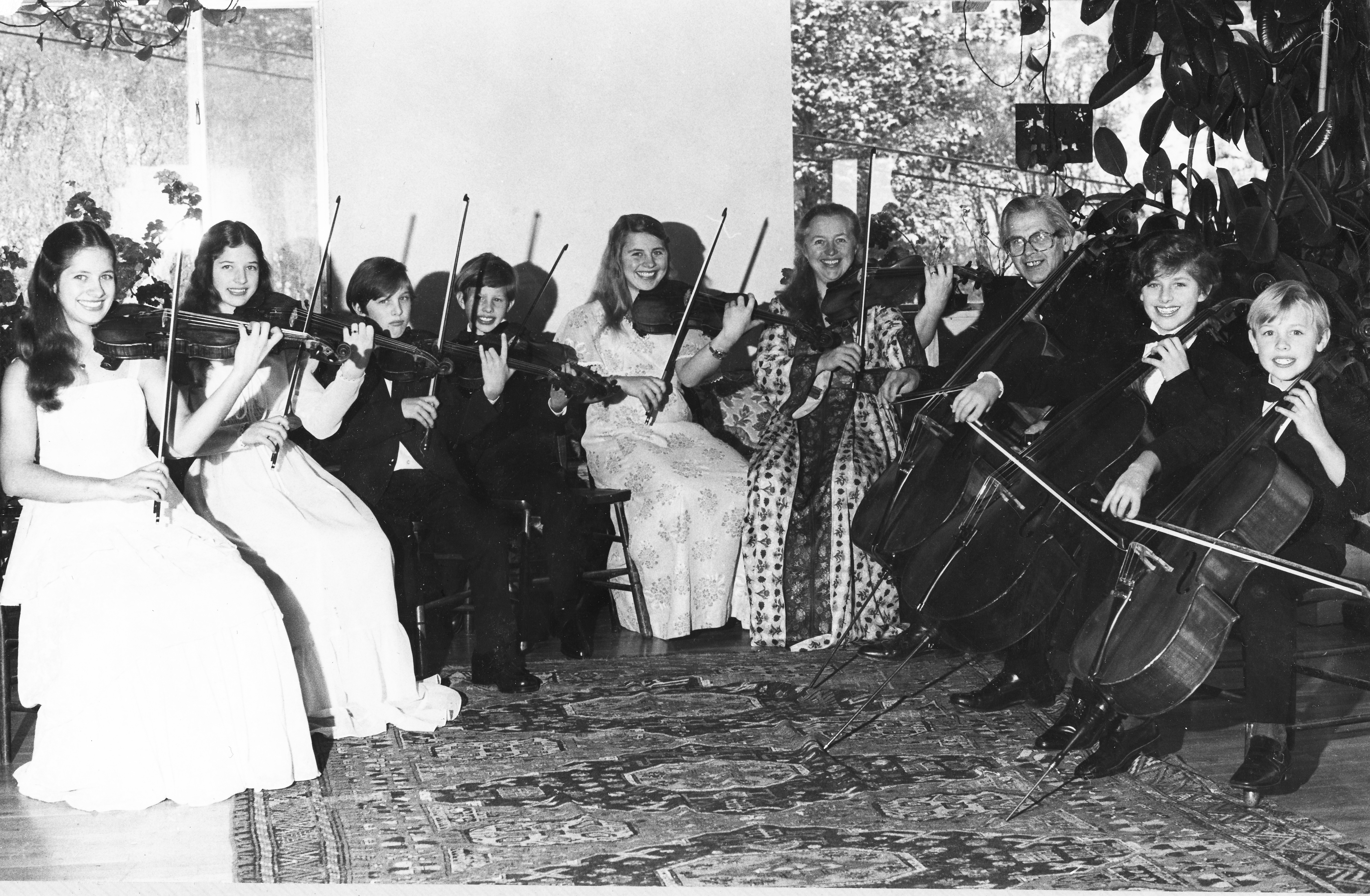 The Paetsch Family Chamber Music Ensemble of Colorado Springs, CO, USA in 1978. From left to right Michaela, Brigitte, Christian, Engelbert, Phebe, Priscilla, Gunther, Johann and Siegmund. A family photo of the father, mother and their seven children playing violins, violas and cellos.